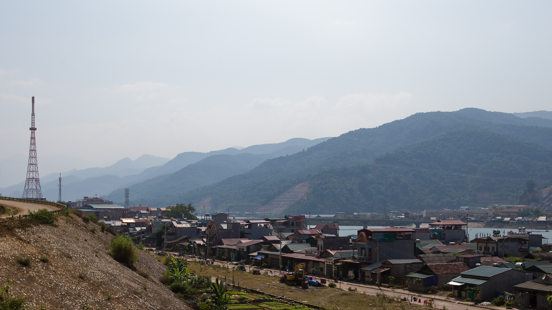 Mường Lay town skyline, Điện Biên province, Vietnam